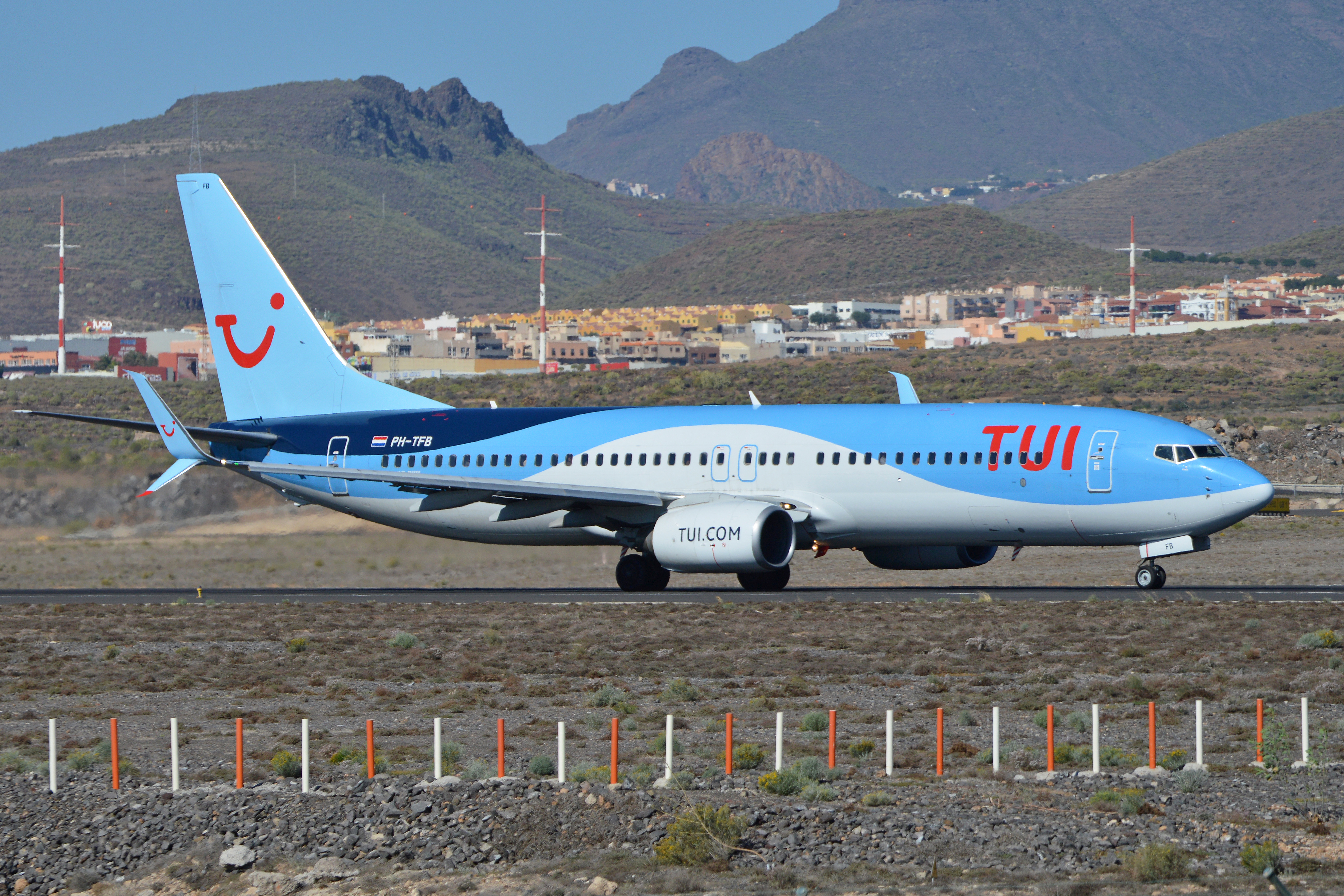 c/n 35149, l/n 2820. Built 2009. Departing on flight TFL572 to Amsterdam. Tenerife South Airport, Canary Islands. 20-1-2016